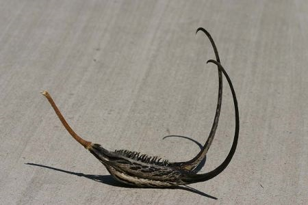 Proboscidea louisianica This image is a work of a Bureau of Land Management* employee, taken or made as part of that person's official duties. As a work of the U.S. federal government, the image is in the public domain in the United States. *or predecessor organization